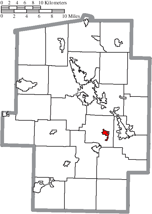 Map of the municipal and township boundaries of Tuscarawas County, Ohio, United States, as of the 2000 census, with the location of the village of Tuscarawas highlighted. Township borders are shown only in unincorporated areas in order to differentiate incorporated and unincorporated areas more clearly.